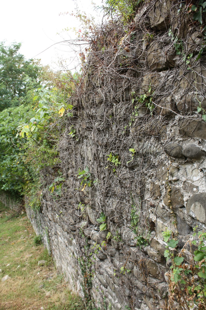 Wall of Godlik Fortress, Chemitokvadzhe, Sochi, Krasnodar Krai, Russia.